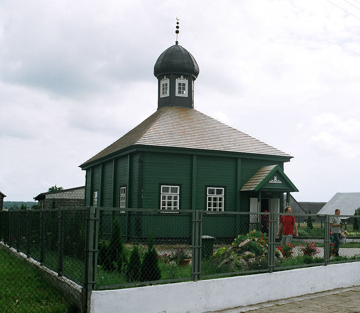 Mosque in Bohoniki